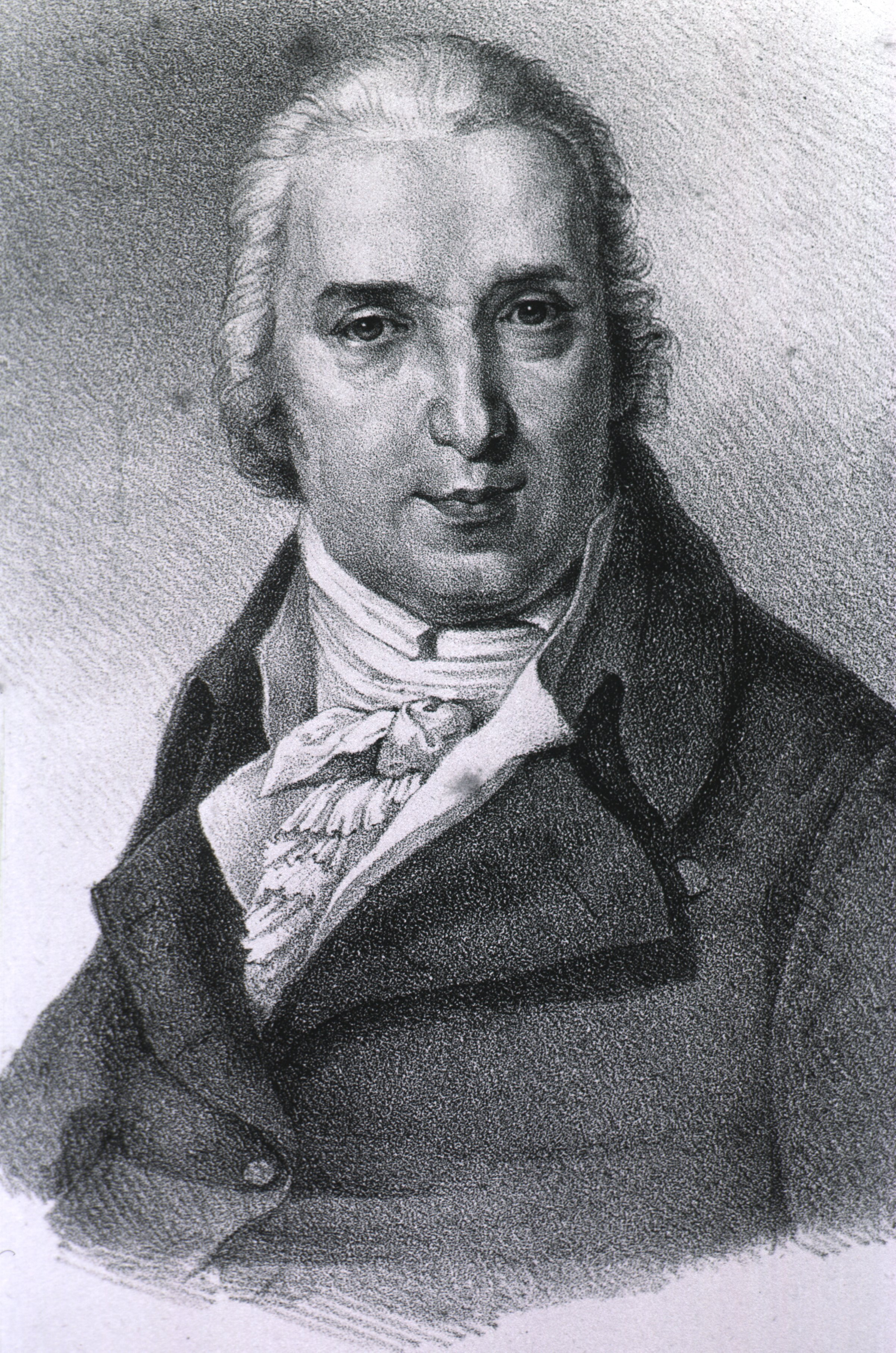 Prochaska, Georg. 1749-1820. Portraiten-gallerie nerühmter aerzte und naturforscher Wien : Fr. Becks Universitäts-Buchha ndlung, 1838 p. 21